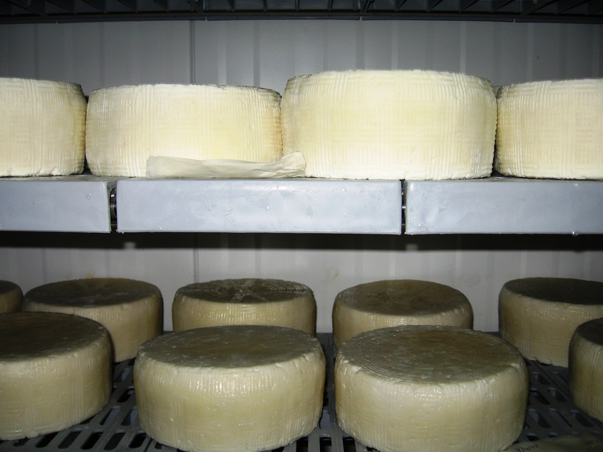 Goat's-milk cheeses from Susia